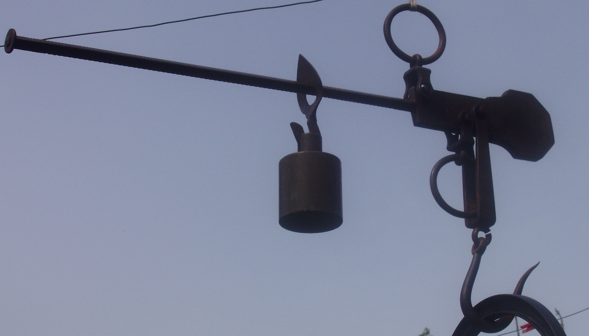 Steelyard balance used in Norway